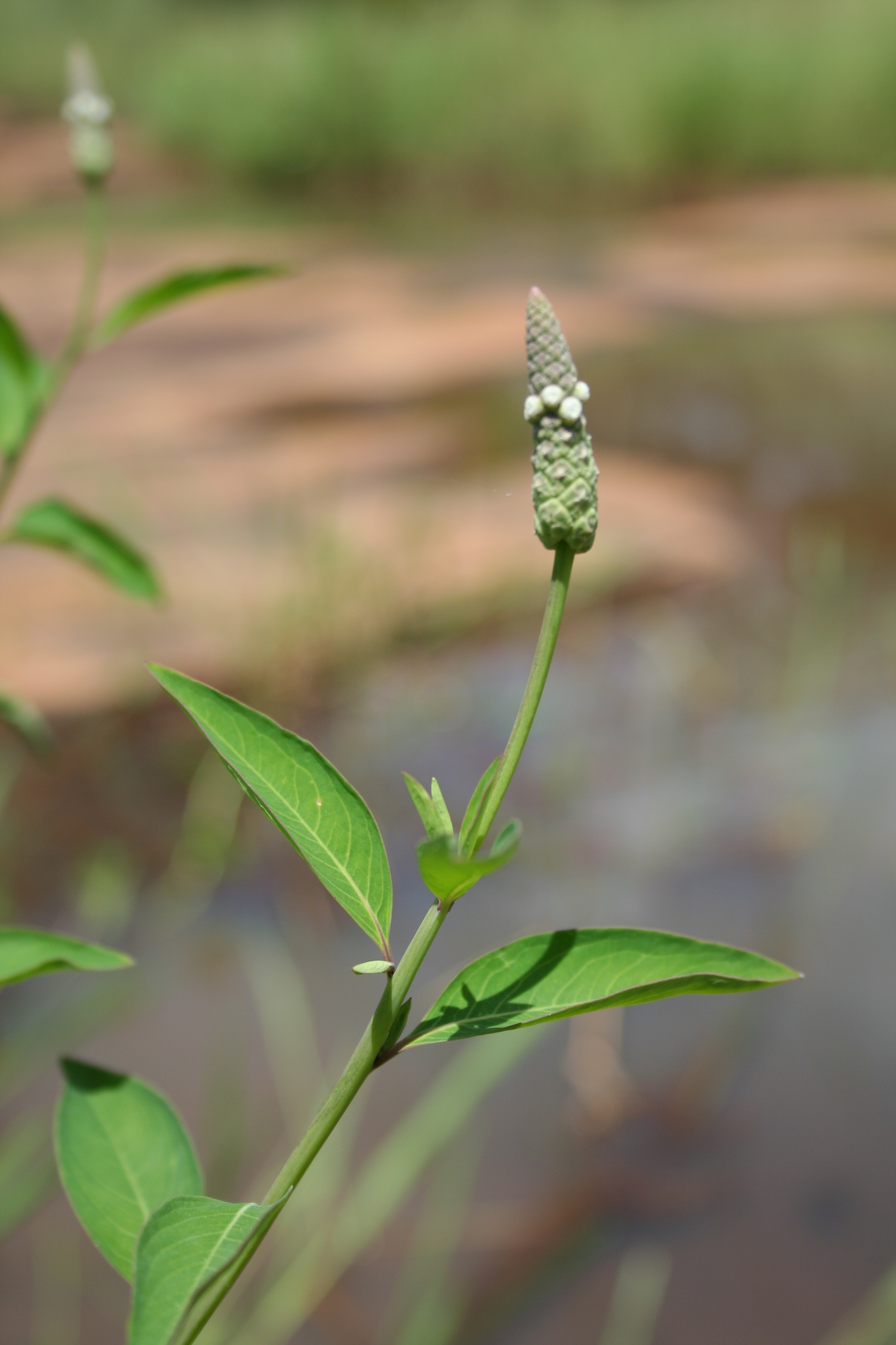 Sphenoclea zeylanica, SW Burkina Faso